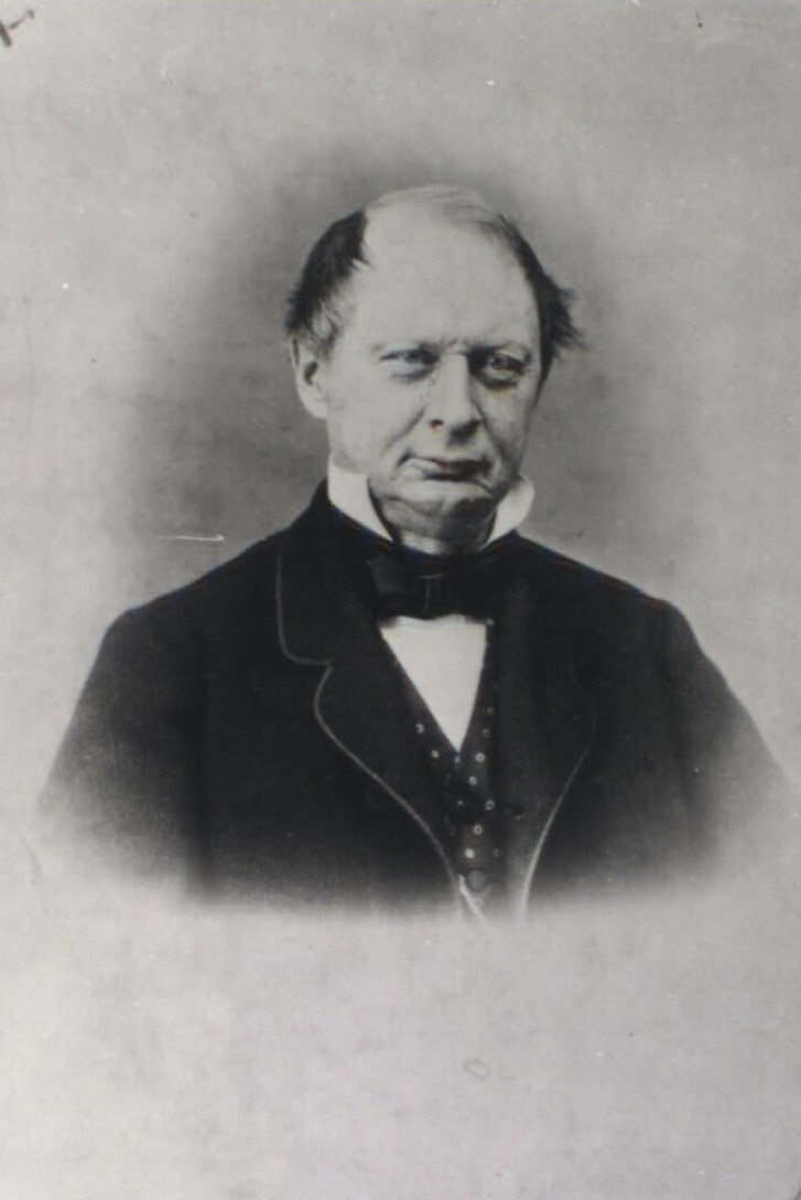 Portrait photograph of Hartwig von Linstow (1810-1884)